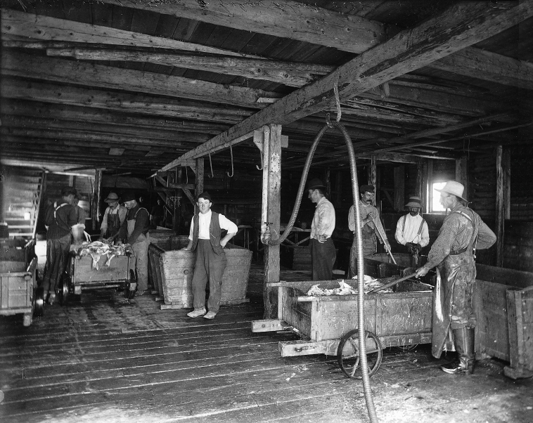 Photograph, Robin Jones Whitman Fishing Plant, Chéticamp, Cape Breton, NS, about 1914, Wm. Notman & Son, Silver salts on glass - Gelatin dry plate process - 20 x 25 cm